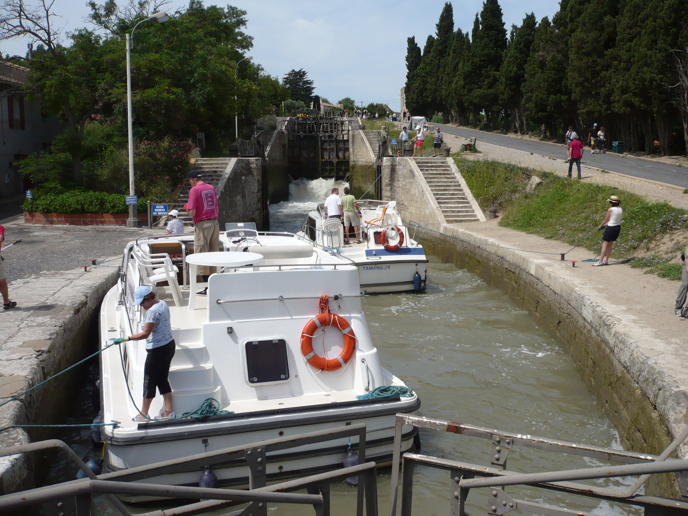 Fonserannes Locks on the Canal du Midi.